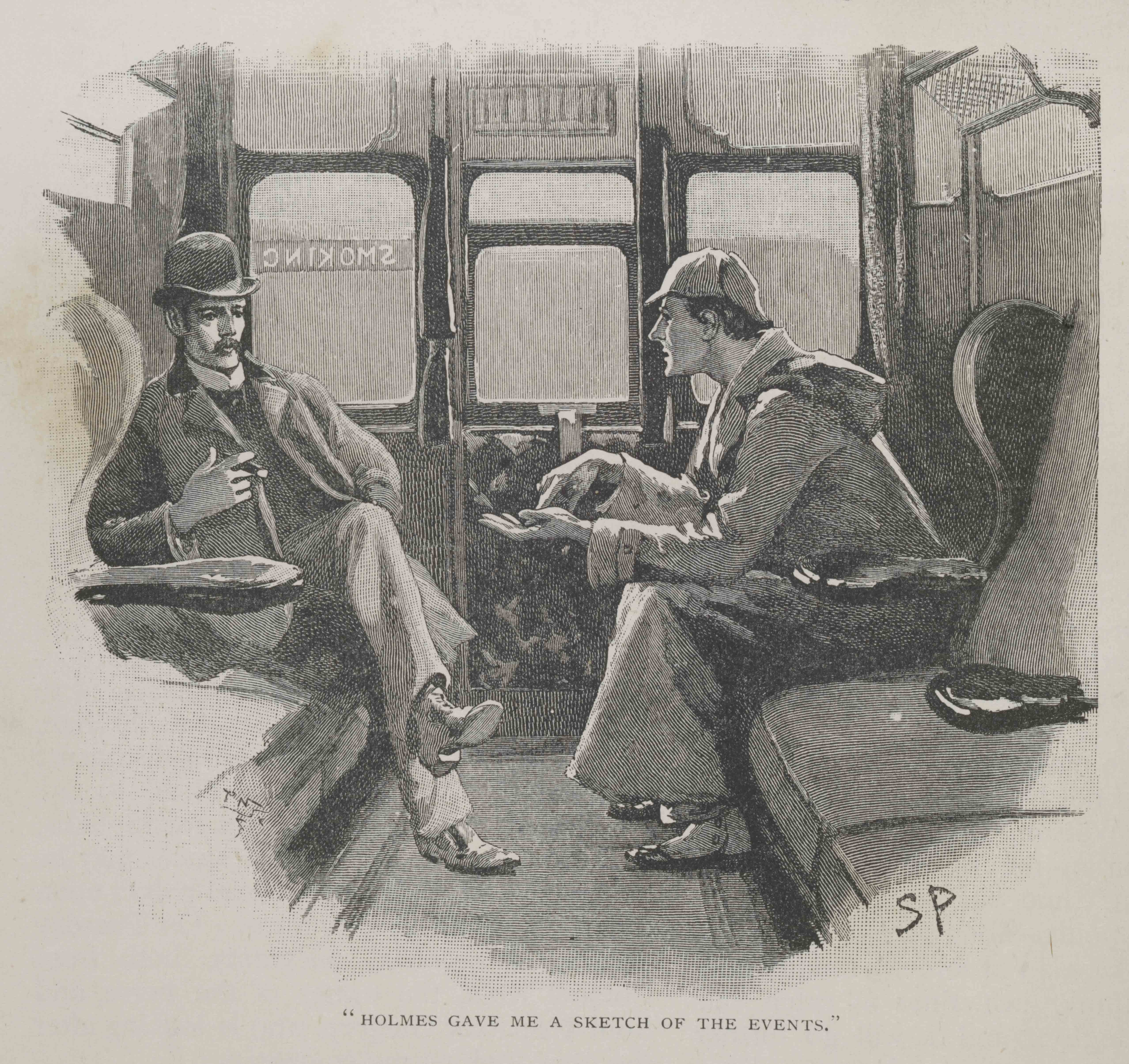 Sherlock Holmes and Doctor Watson. Published in The Adventure of Silver Blaze, which appeared in The Strand Magazine in December 1892, with the caption "HOLMES GAVE ME A SKETCH OF THE EVENTS."